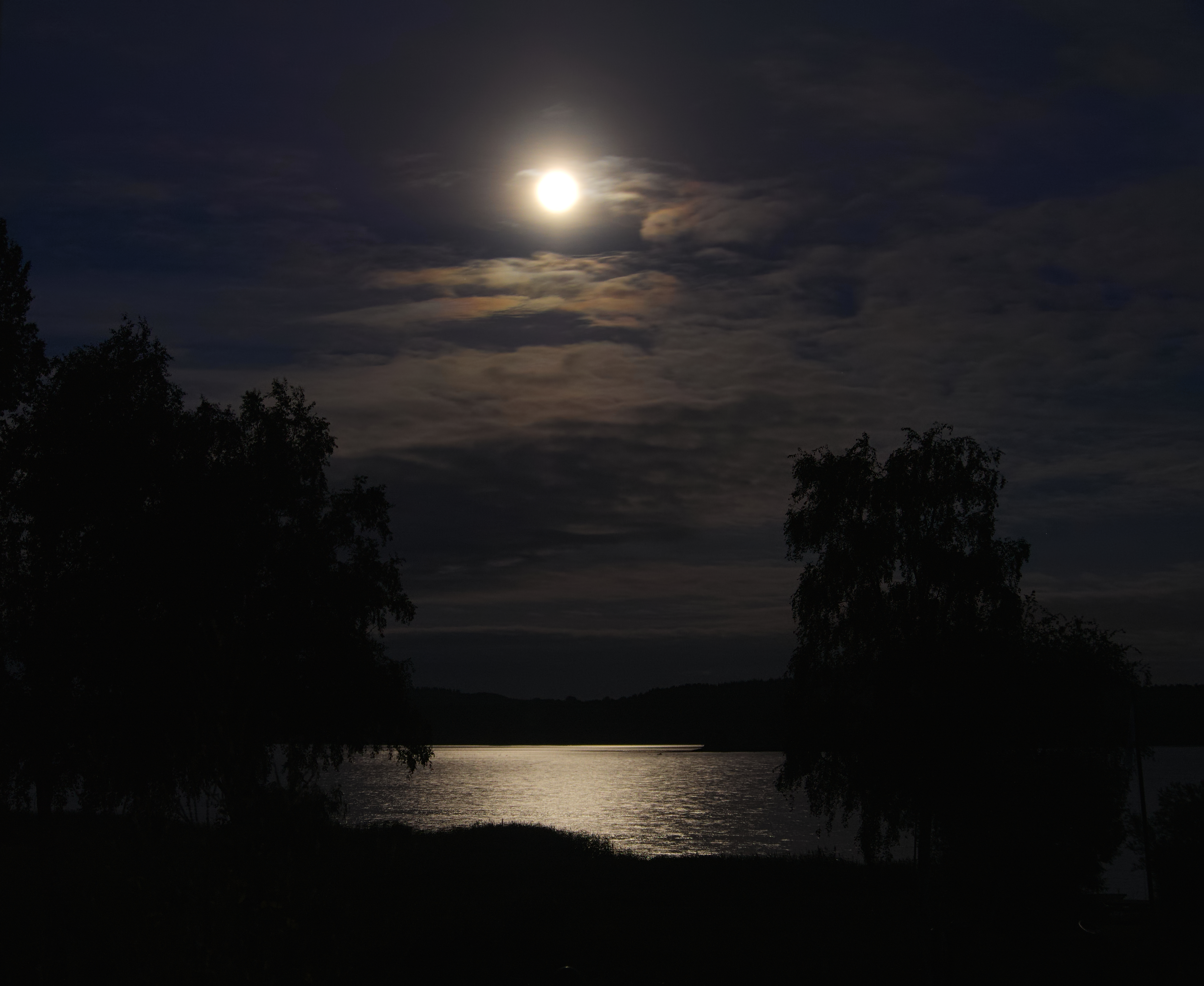 Westensee by night. Taken in Felde, Schleswig-Holstein, Germany